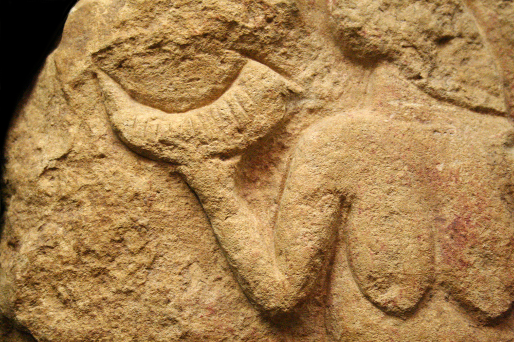 detail of the Venus of Laussel, picture of the original kept in Bordeaux museum, France